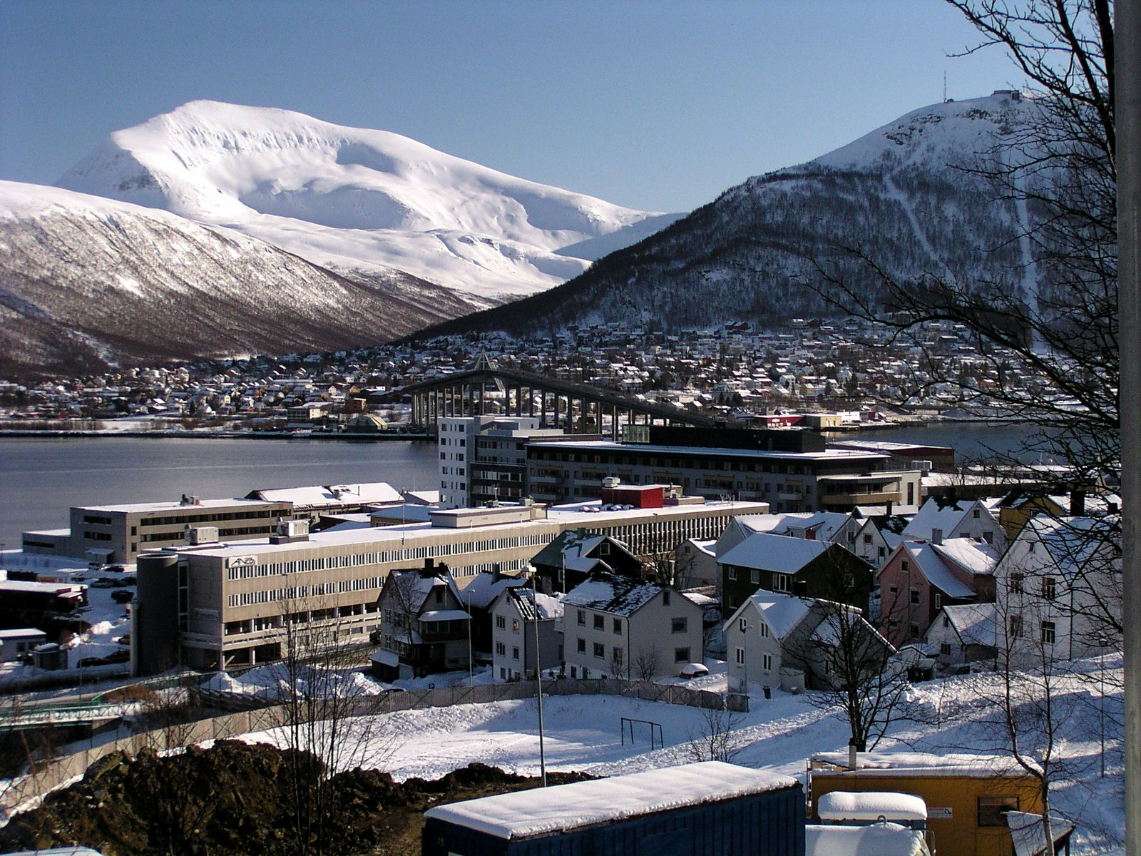 Tromsø, northern part of the city centre, Tromsdalen in the background (facing west from the island)